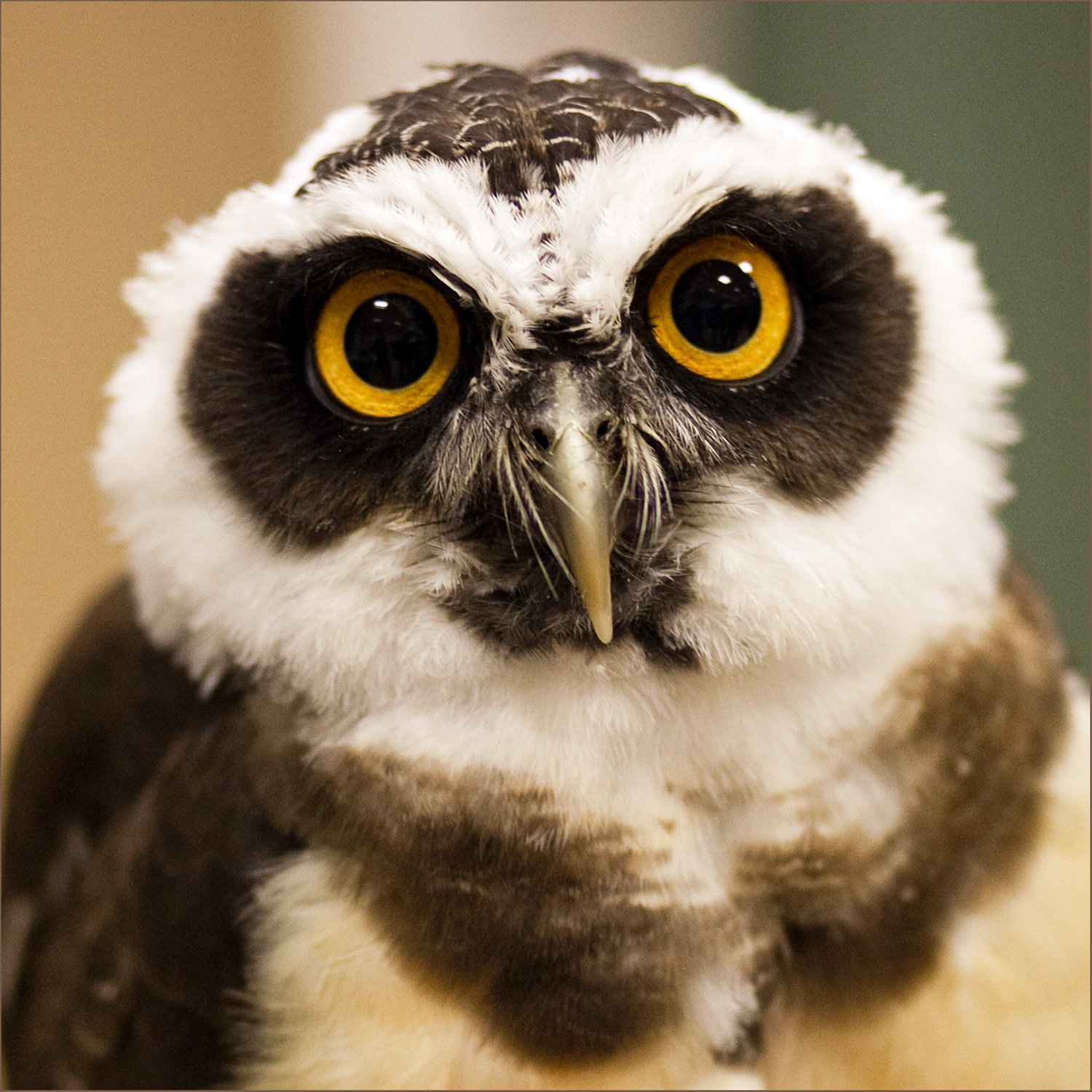 Spectacled owl